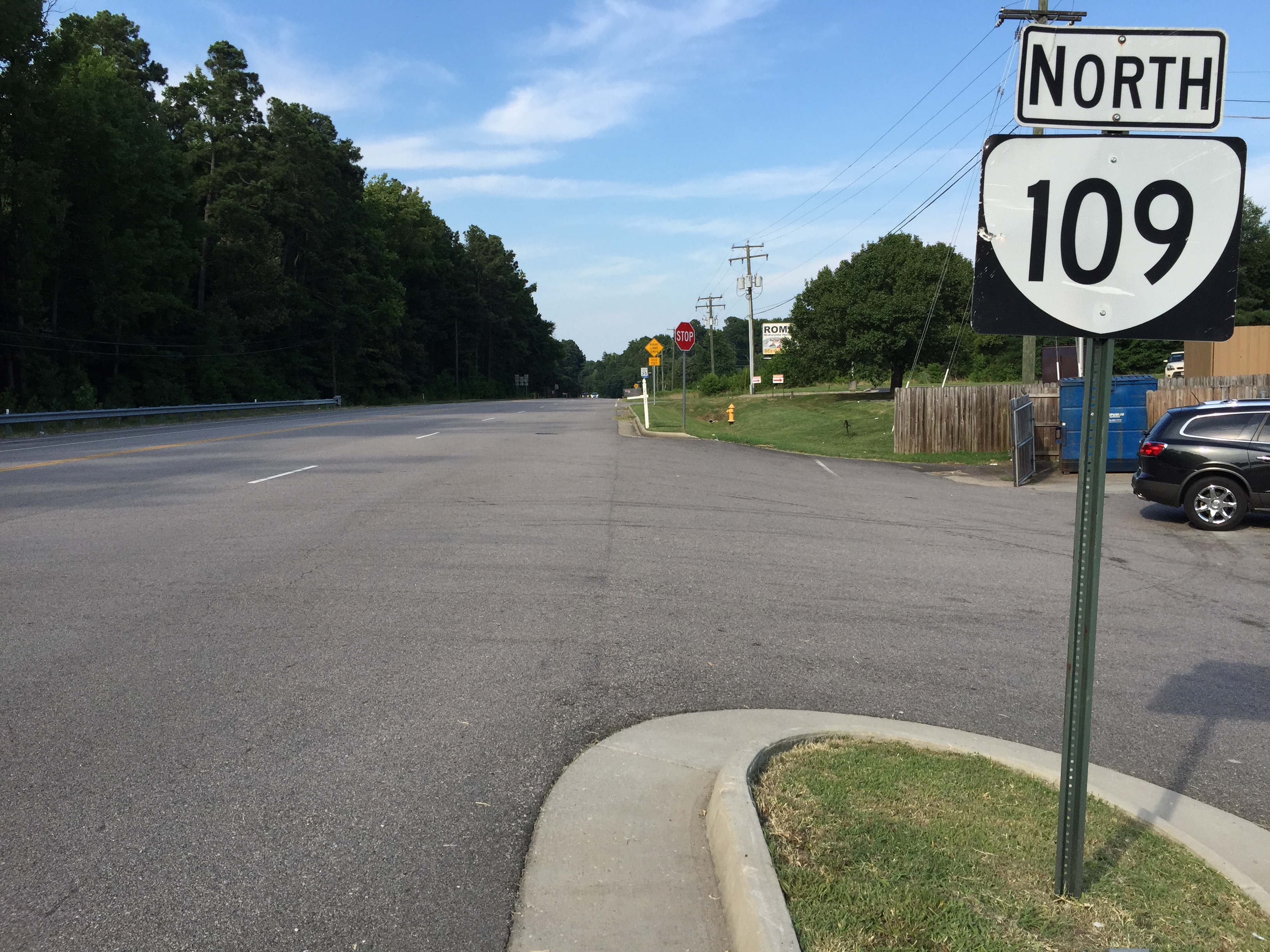 View north along Virginia State Route 109 (Hickory Hill Road) at U.S. Route 460 Business (County Drive) in Petersburg, Virginia